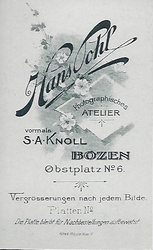 Reverse of Pohl's Carte de visite Bozen-Bolzano